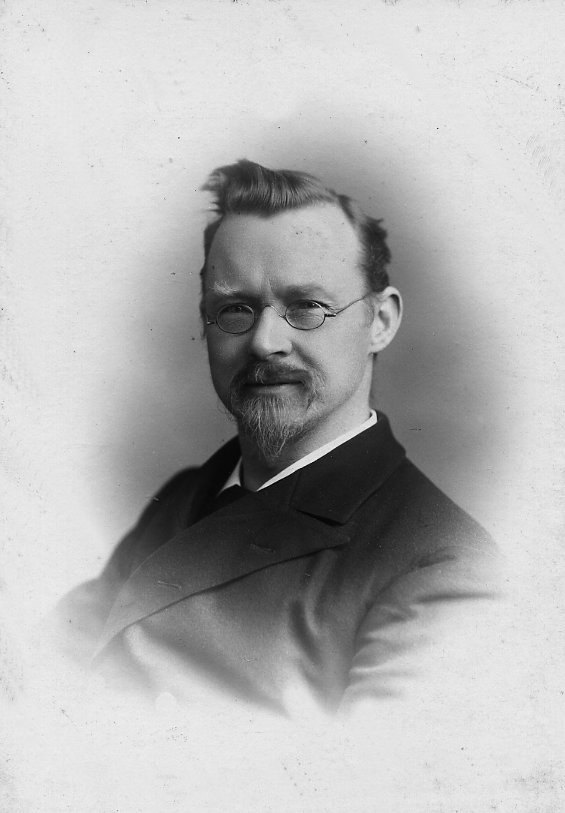 Phot of Rev Dr Charles Leach